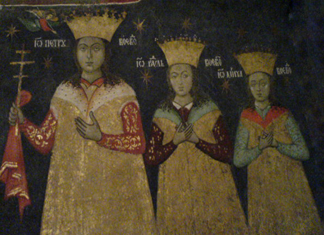 Petru cel Tânăr and his brothers Radu and Mircea, fresco at Snagov monastery.